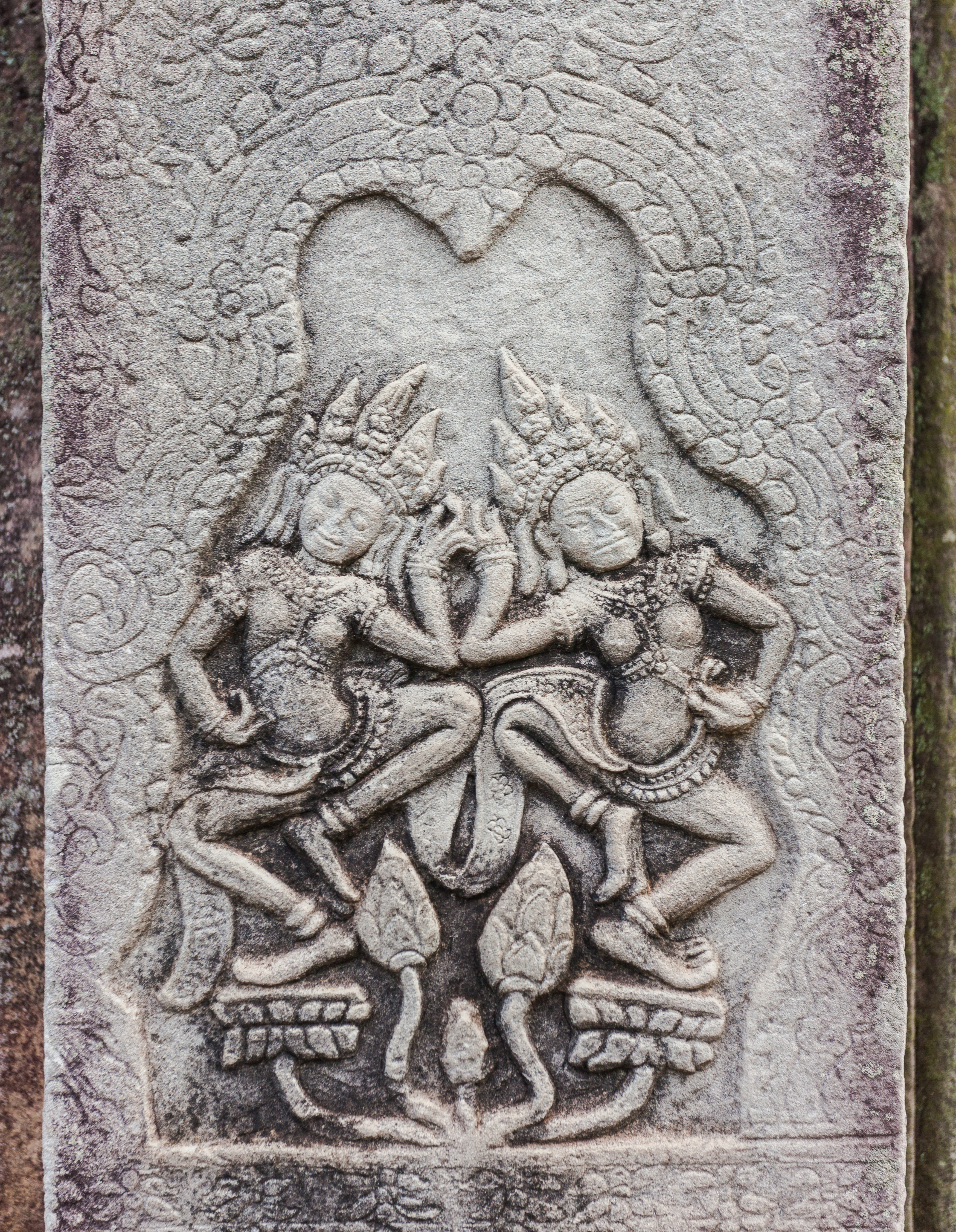 Bayon, Angkor Thom, Cambodia